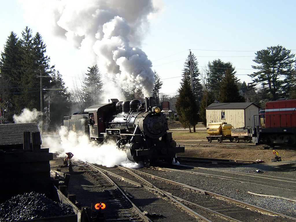 Valley Railroad steam engine in Essex, Connecticut, December 18, 2004.